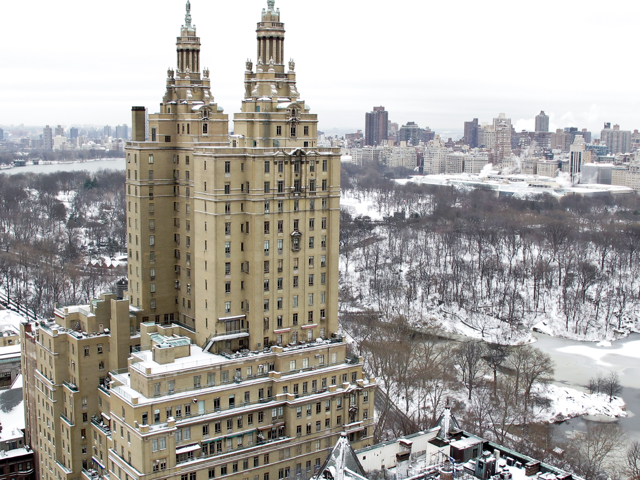 snowed Central Park and San Remo